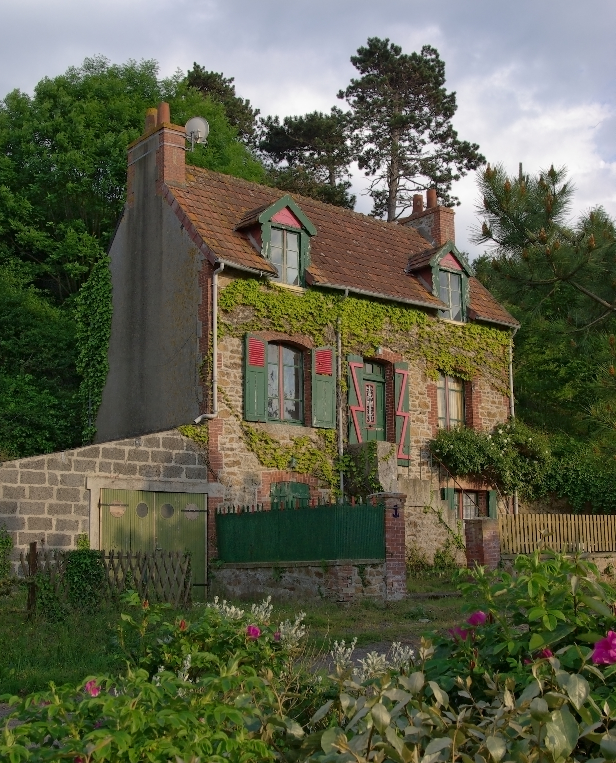 Georges Palante's villa in Hillion, France. Georges Palante was a French philosopher and writer. Louis Guilloux took his inspiration from him to create the main character in his novel Le Sang noir (1935). Georges Palante committed suicide in this villa in 1925. - La Grandville, Hillion, Côtes d'Armor, France . .